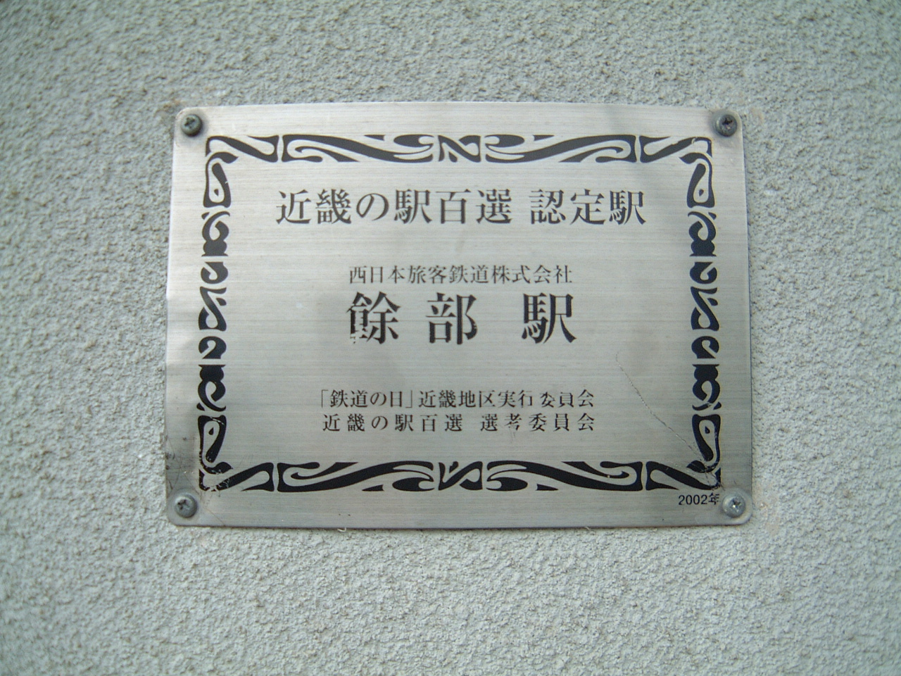 "100 Railway Stations in Kinki region" plaque at Amarube Station